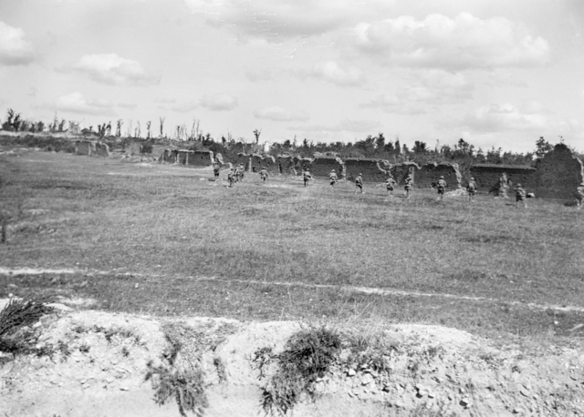 Soldiers from the 21st Battalion, Australian Imperial Force, attack at Mont St Quentin, on 1 September 1918